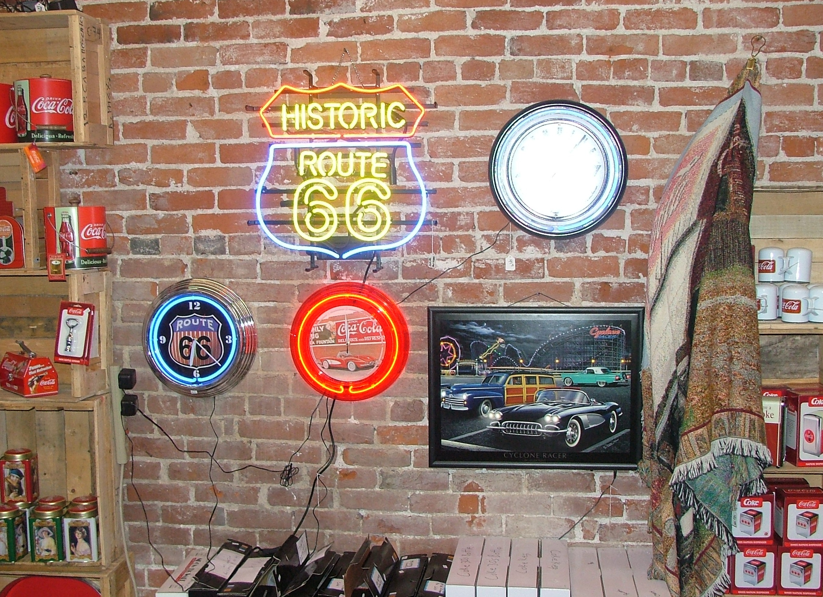 Route 66 memorabilias in a shop in Williams, Az